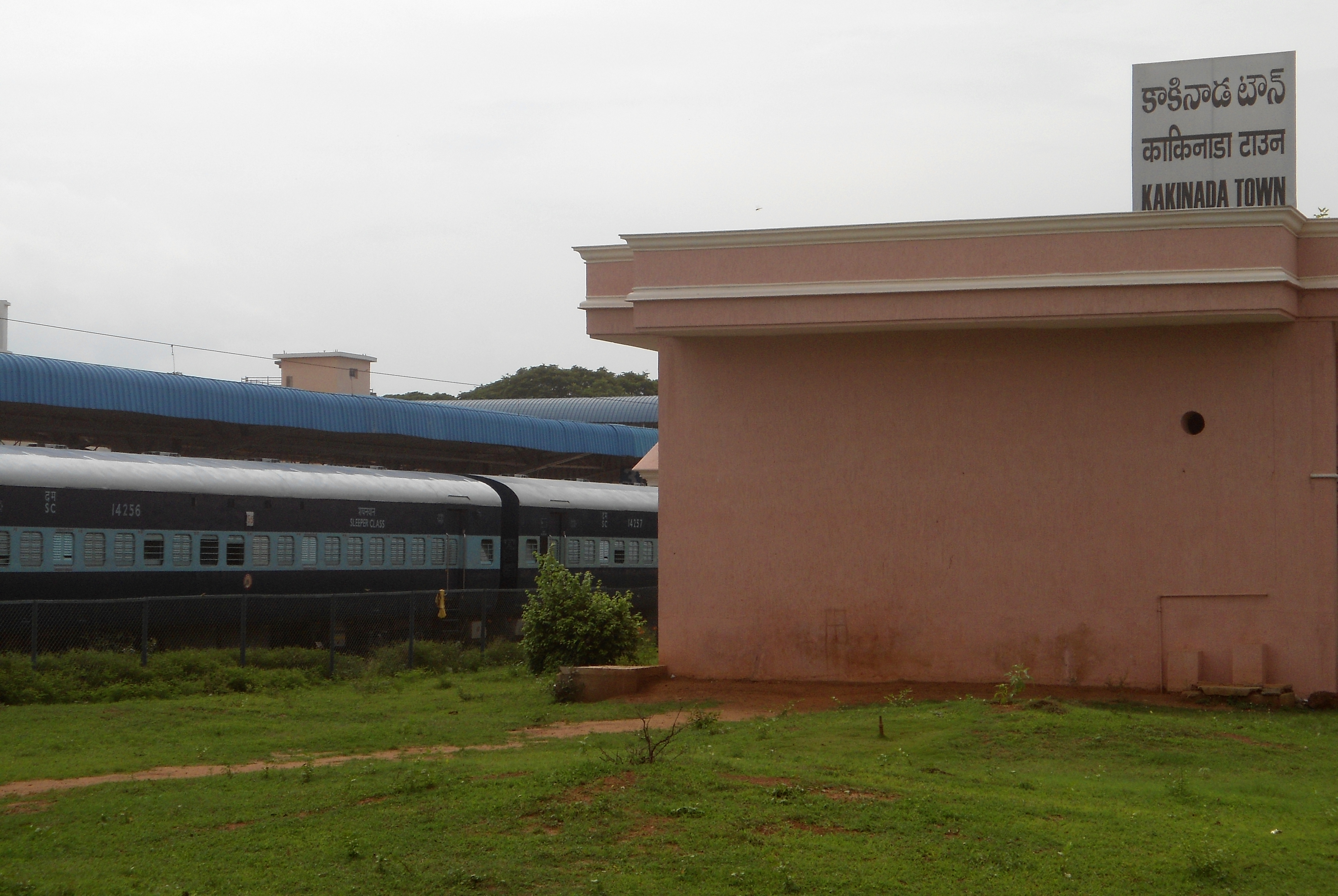 Kakinada Town Junction Railway Station, Andhra Pradesh